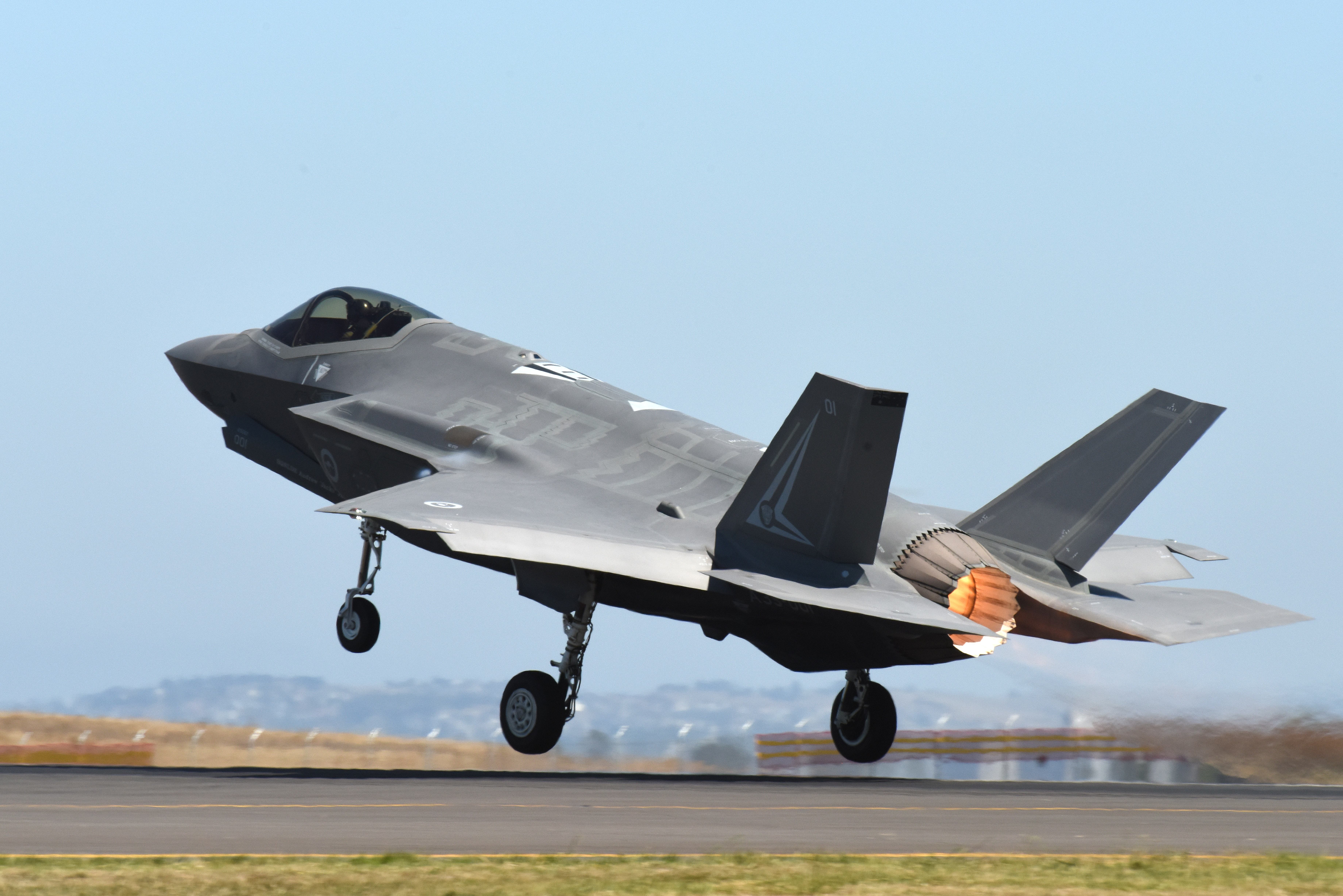 Geelong, AUSTRALIA – An F-35 Lightning II stationed at Luke Air Force Base, Ariz., departs the runway during the Australian International Airshow and Aerospace & Defence Exposition (AVALON) March 4. AVALON 2017 is an ideal forum to showcase U.S. defense aircraft and equipment, particularly the latest in fifth generation capabilities such as the F-22 Raptor and F-35 and it is the largest, most comprehensive event of its kind in the Southern Hemisphere, attracting aviation and aerospace professions, key defense personnel, aviation enthusiasts and the general public. The U.S. participates in AVALON and other similar events to demonstrate the U.S. commitment to regional security and stability. (U.S. Air Force photo/Master Sgt. John Gordinier)